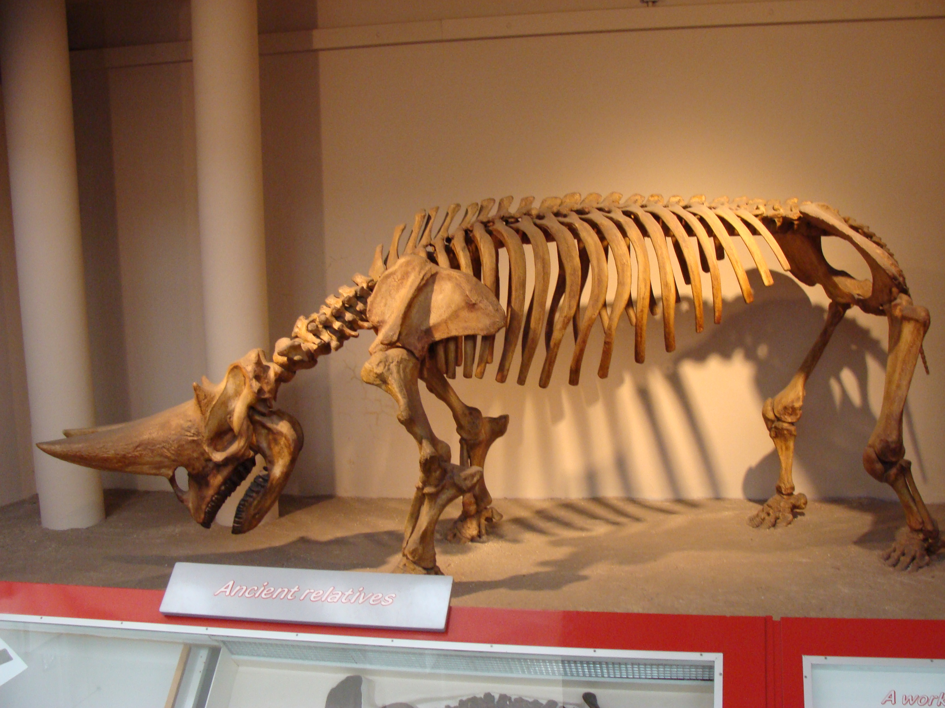 Arsinoitherium zitteli in the Natural History Museum of London